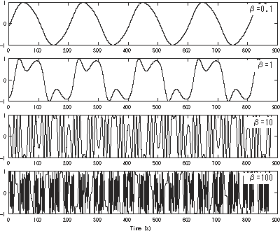 Graphs of various frequency modulated sine waves in the time domain for various modulation indices. (Time is in milliseconds, not seconds.)